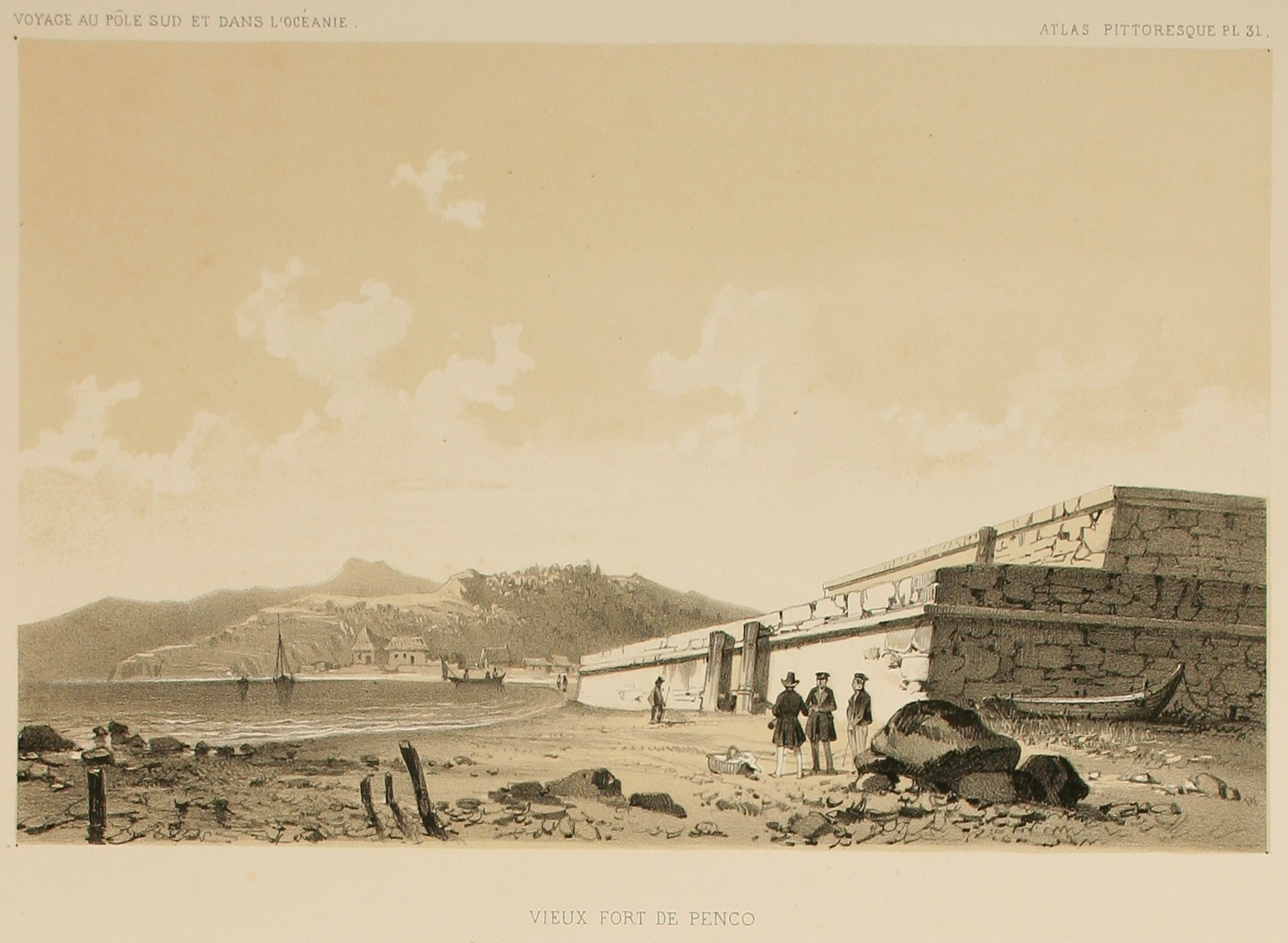 Vieux fort de Penco , église de Penco (en 1838). Atlas pittoresque, planche 31 This is a photo of a national monument in Chile: 653